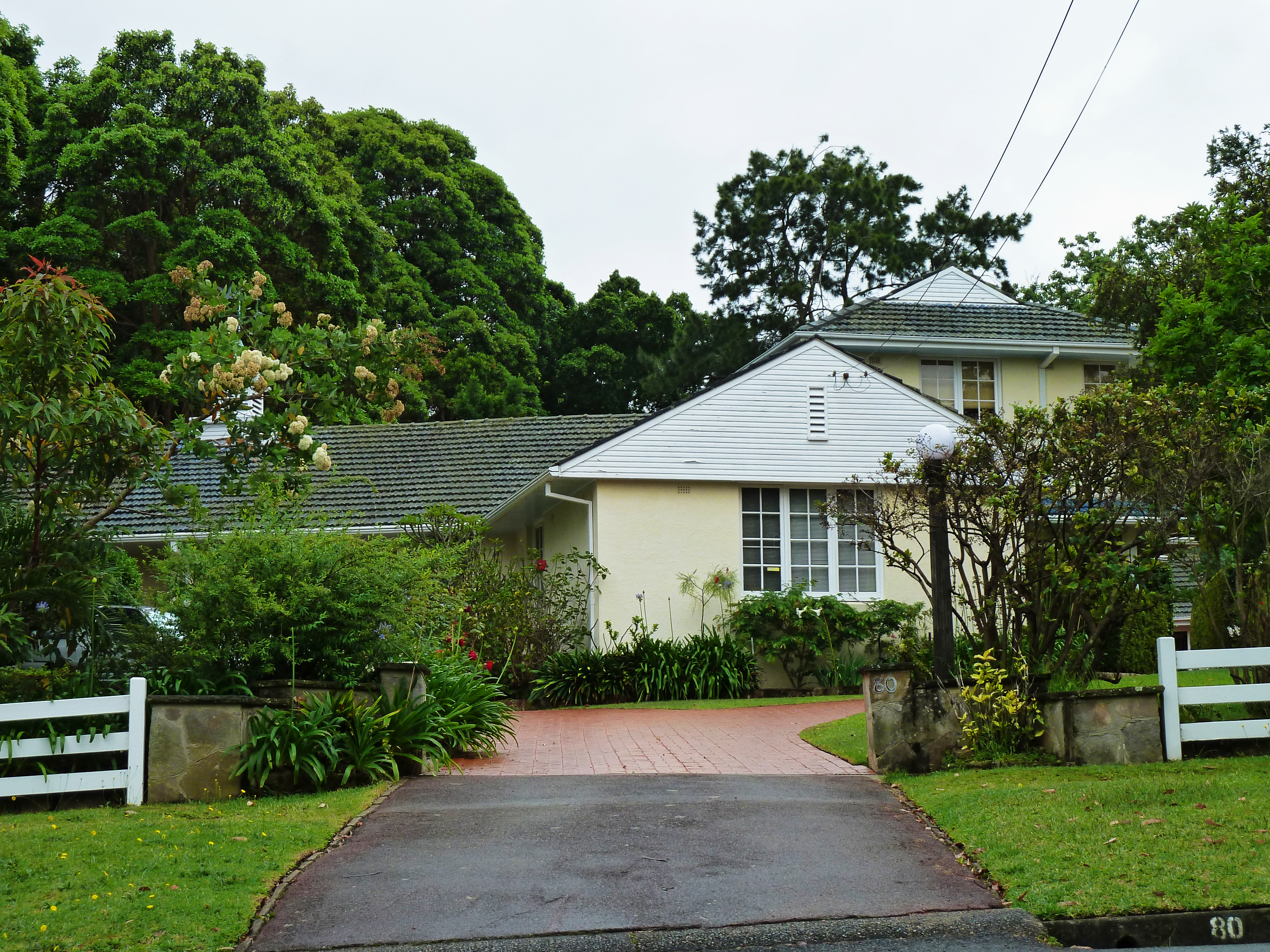 80 Springdale Road, East Killara, New South Wales, Australia.